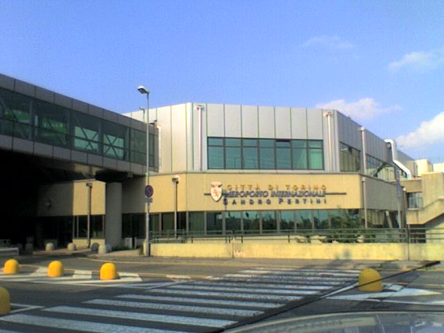 Outside of the Turin International Airport "Sandro Pertini" located in Caselle (TO)